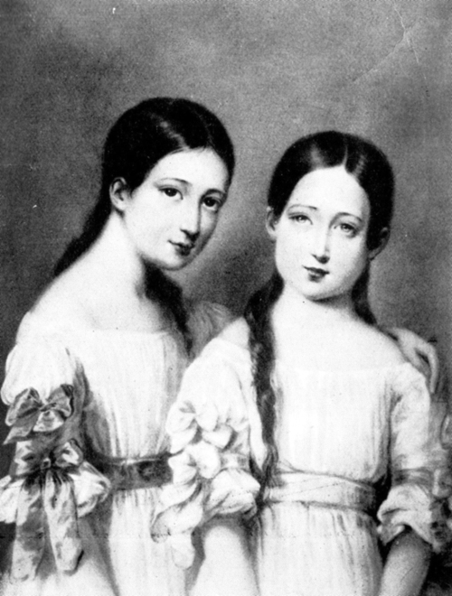 Empress Eugénie with her sister Paca.